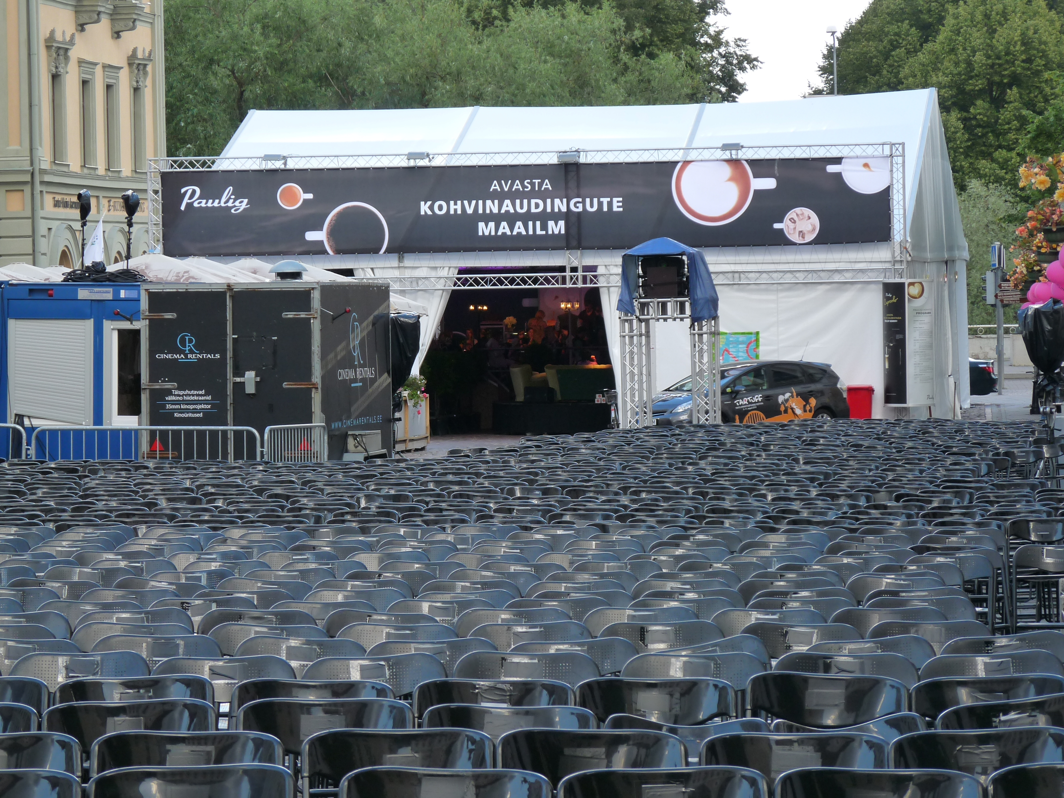 Paulig's coffee tent, one of the venues on the annual film festival tARTuFF in Tartu, on Raekoja plats, on August 9, 2012. Photo: User:Oop.